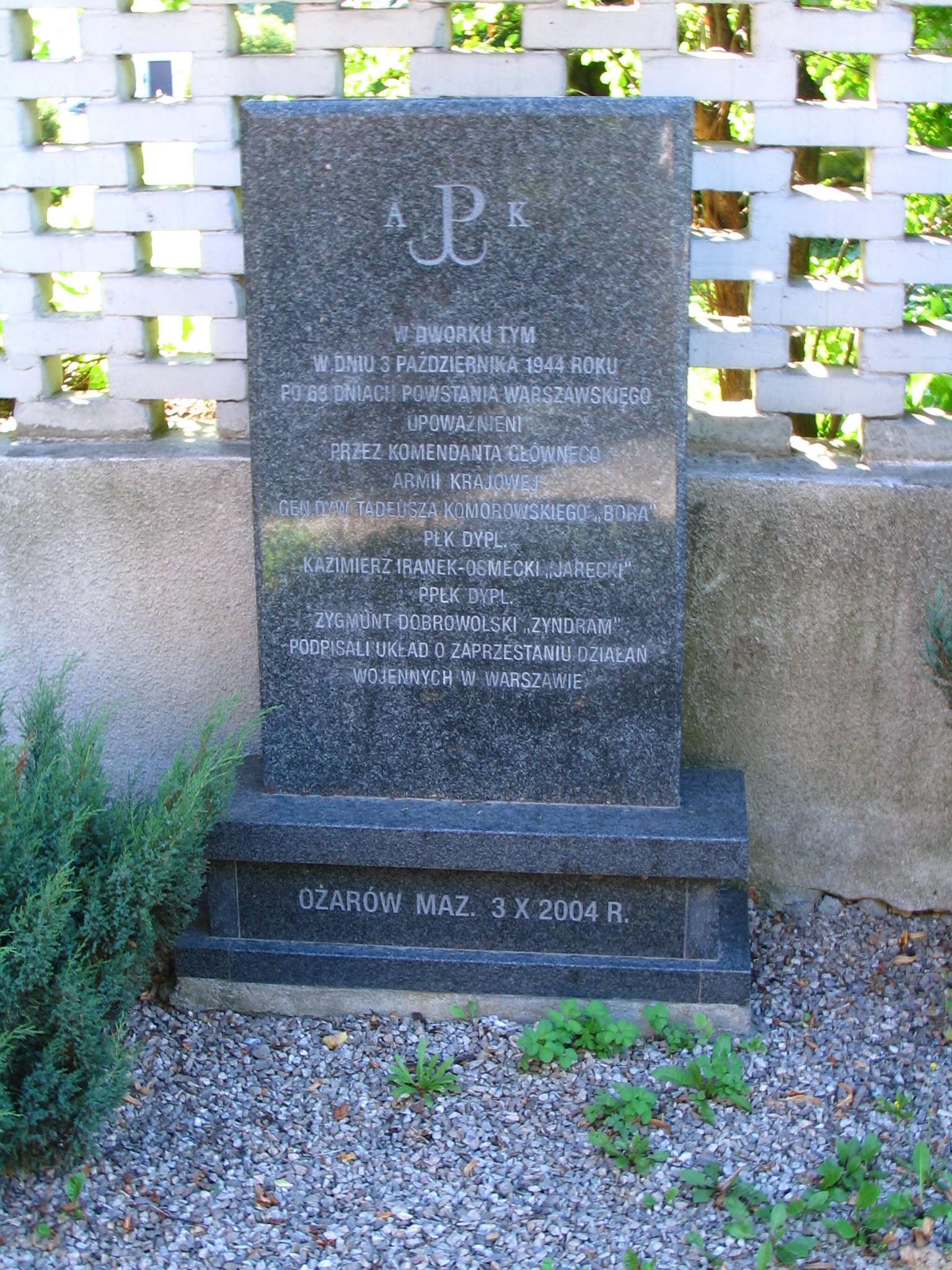 A memorial tablet in Ożarów Mazowiecki, commemorating the 50th anniversary of the signing of the capitulation of Armia Krajowa units participating in the Warsaw Uprising. Poniatowska Street Nr. 1, Ożarów Mazowiecki, Poland